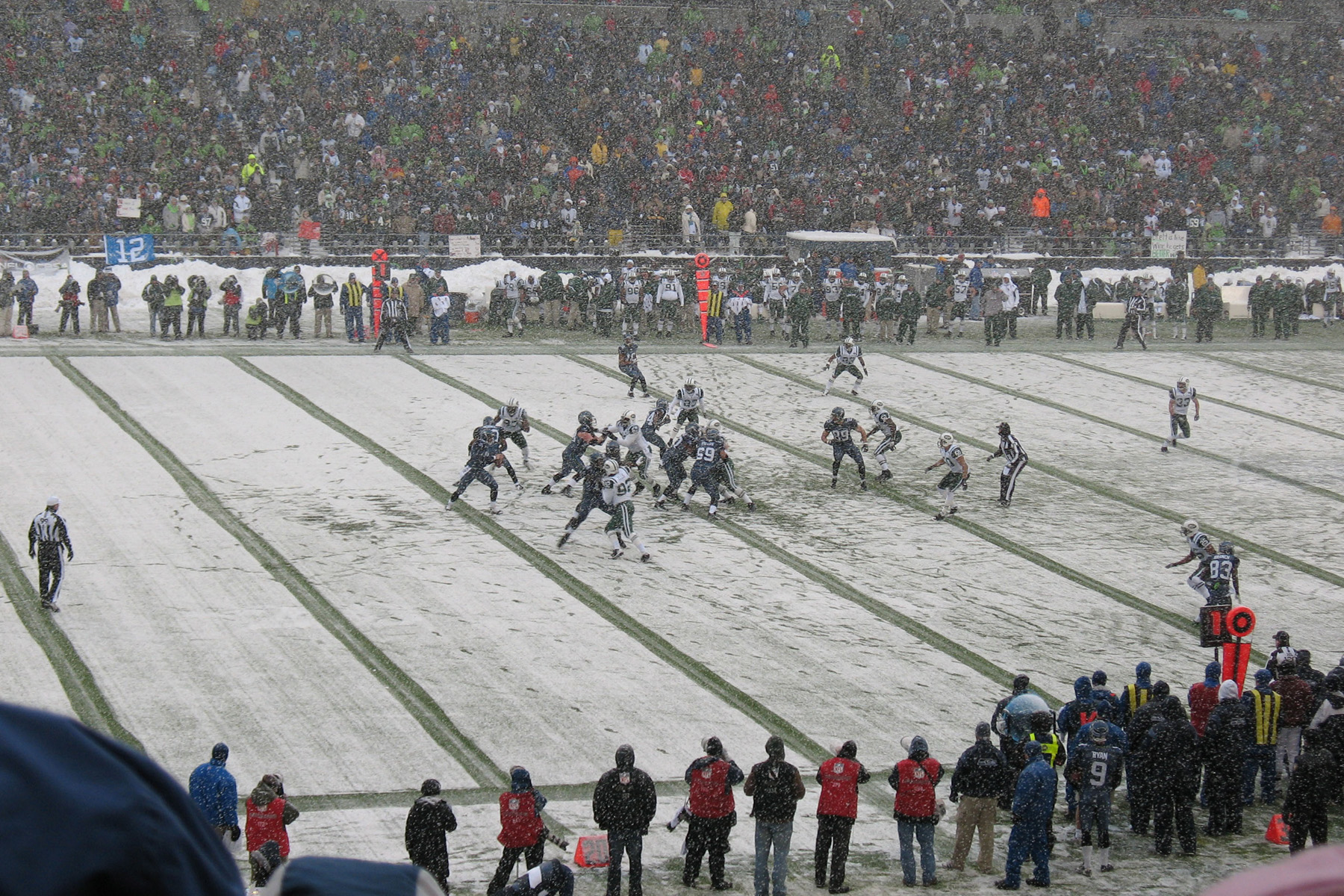 Snowfall at Qwest Field, home of the Seattle Seahawks, on December 21, 2008. The Seahawks defeated the New York Jets 13 to 3 in Mike Holmgren's final home game as head coach. The game started a 1:00 PM and the temperature was 31 degrees F. Photo by Michael Holley (2008) with a Canon PowerShot A630.